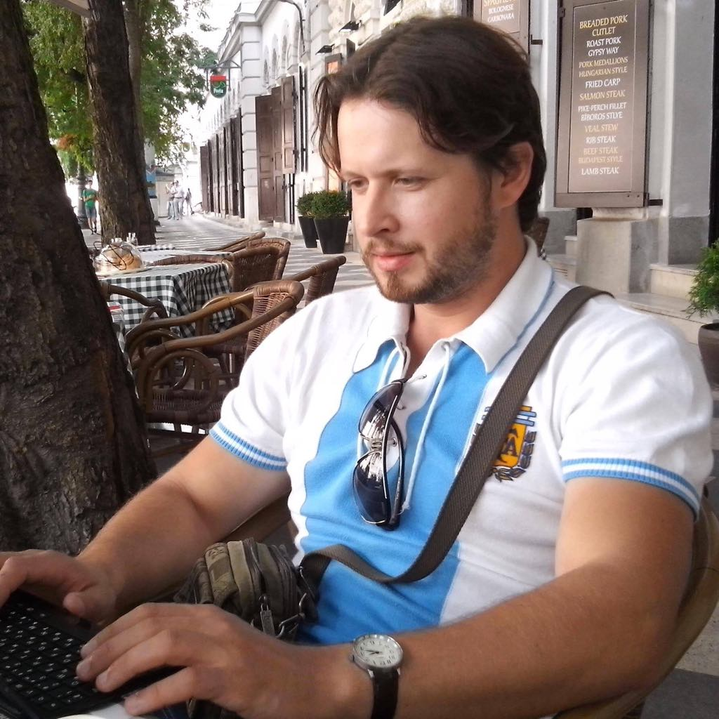 Bohdan Kolomiychuk